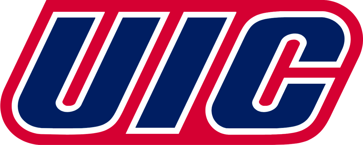 UIC Flames wordmark